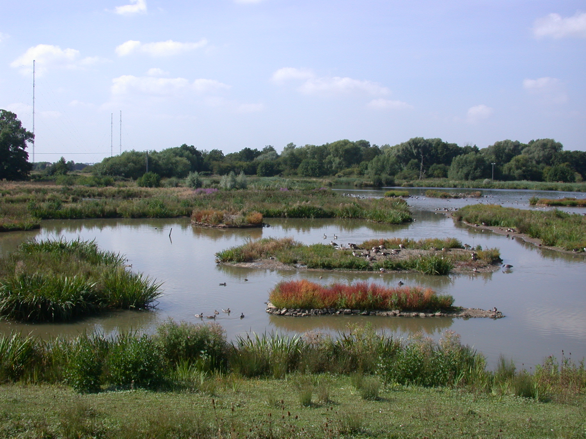 View over the Christopher Cadbury Wetland Reserve at Upton Warren, Worcestershire, England, with radio masts in background.